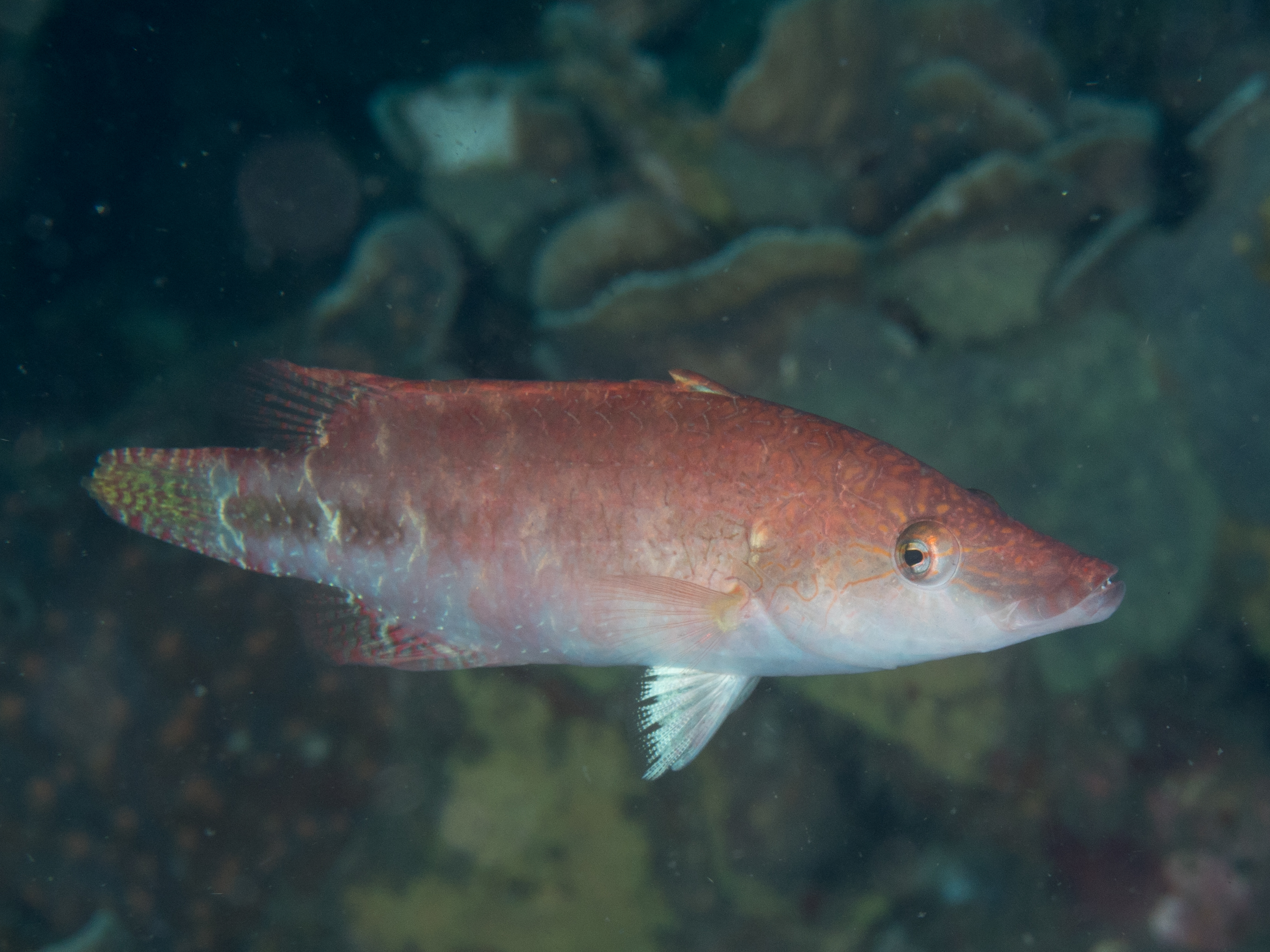 Lembeh, Indonesia - Celebes wrasse (Oxycheilinus celebicus)